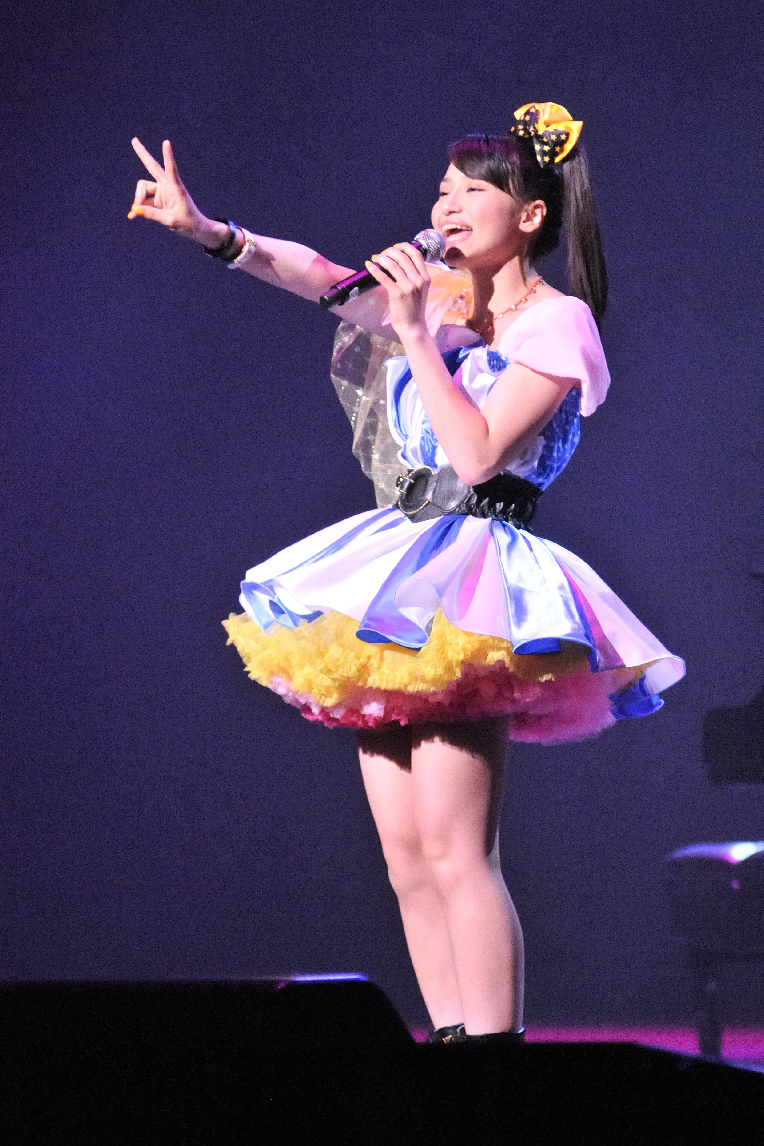 Nakajima performed in Los Angeles,California three years earlier. Tagalog: Nagtanghal si Nakajima sa Los Angeles,California tatlong taon na ang nakakalipas.